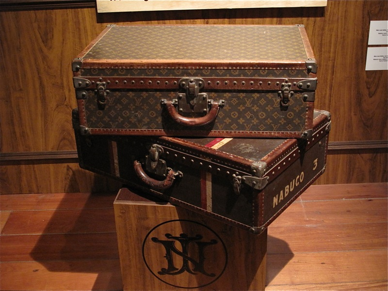 Antique Louis Vuitton suitcases on display in the Museu Historico Nacional in Rio.